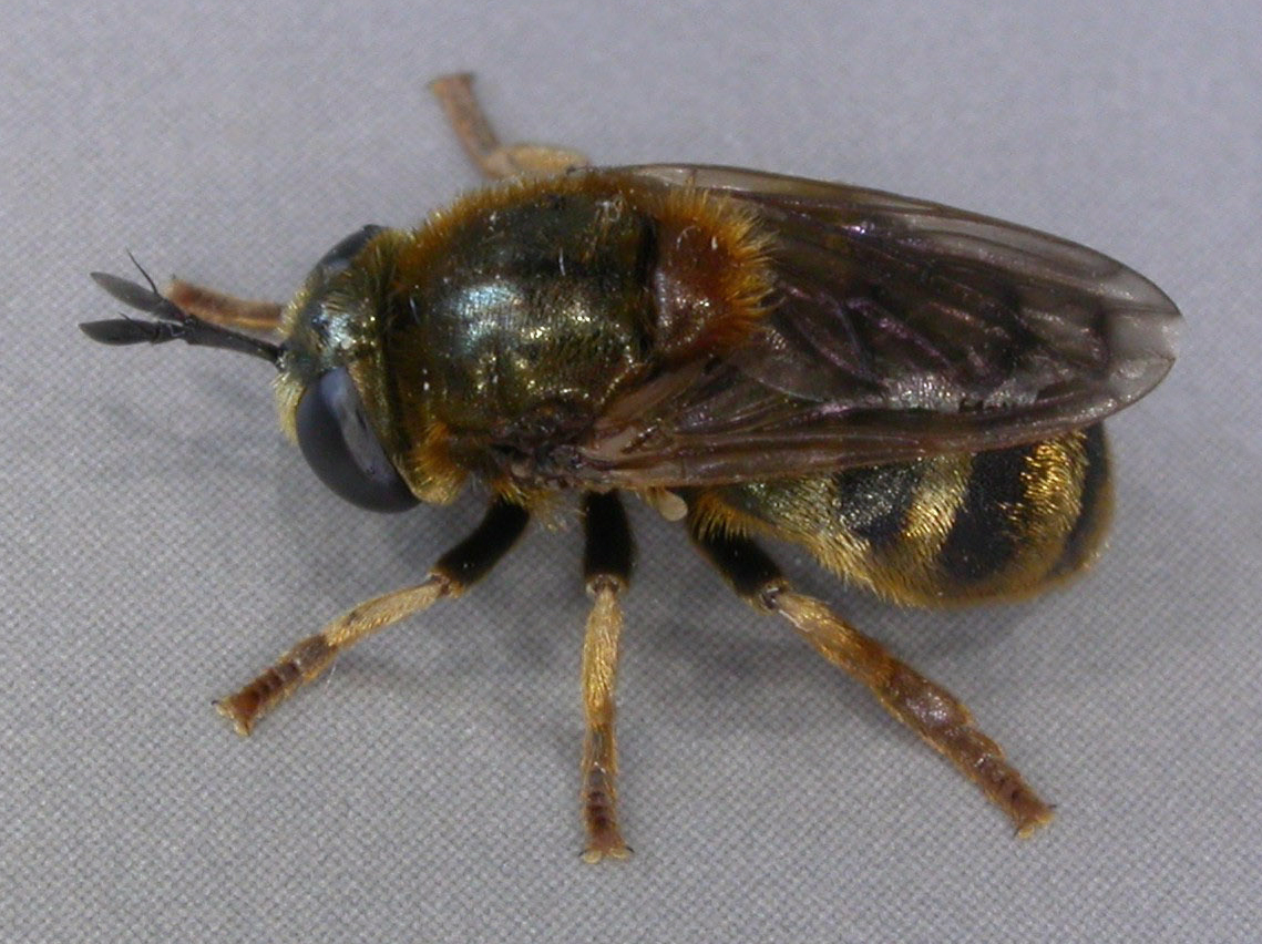 Microdon myrmicae, Trawscoed, North Wales, June 2008 2 Red scutellum, it is Microdon mutabilis, not Microdon myrmicae.